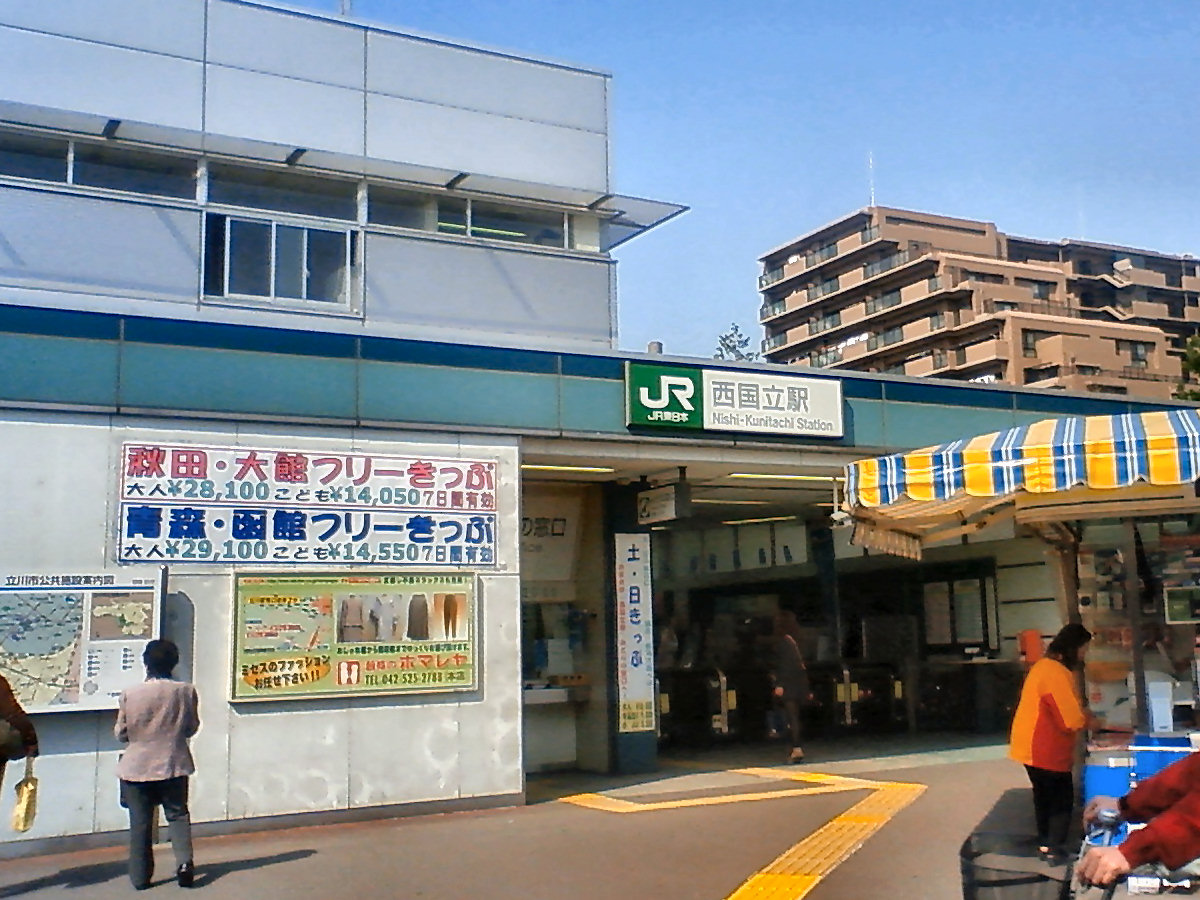 Nishi-Kunitachi Station entrance